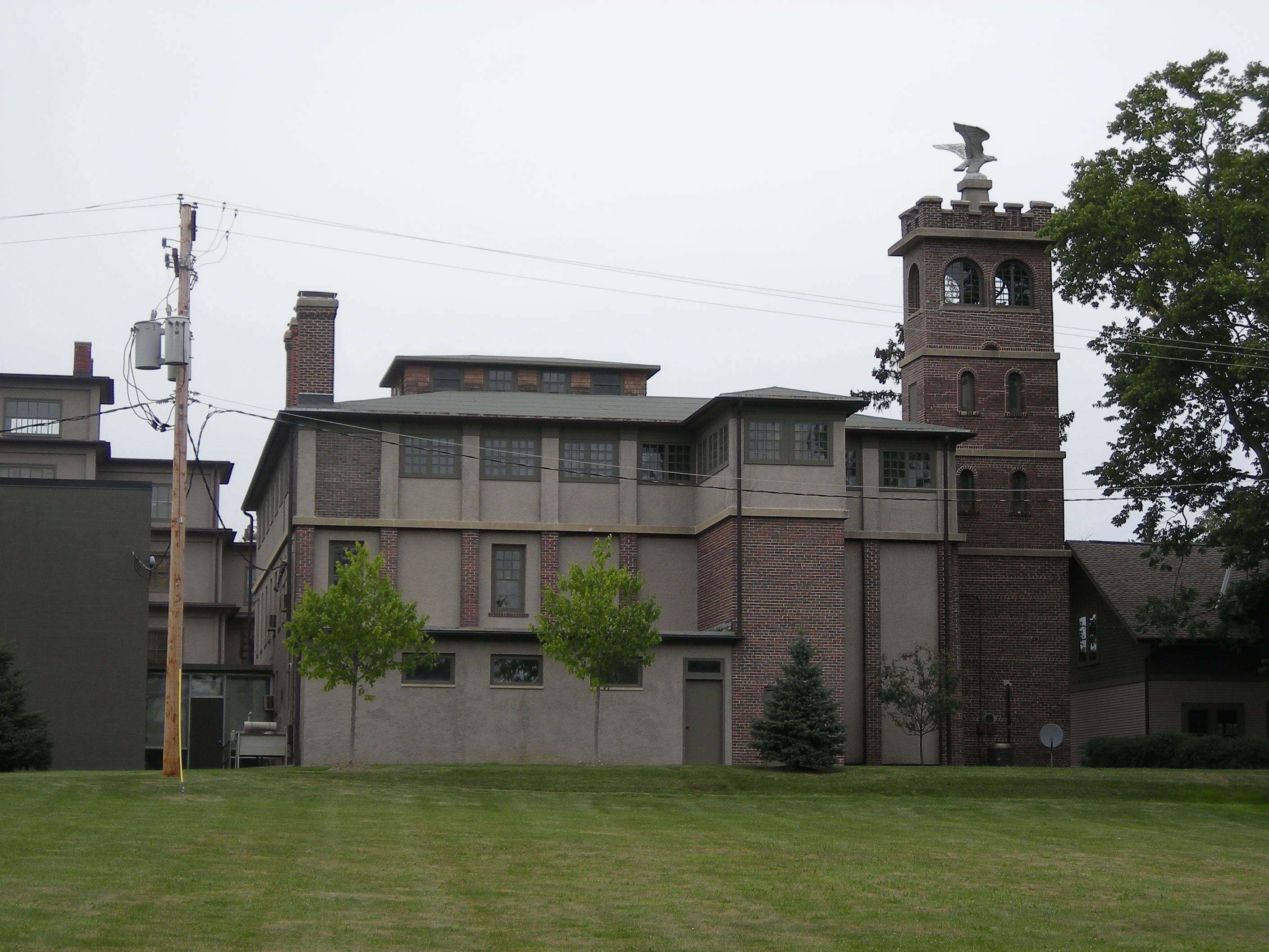 Riverbank Laboratories. Geneva, IL. National Register of Historic Places